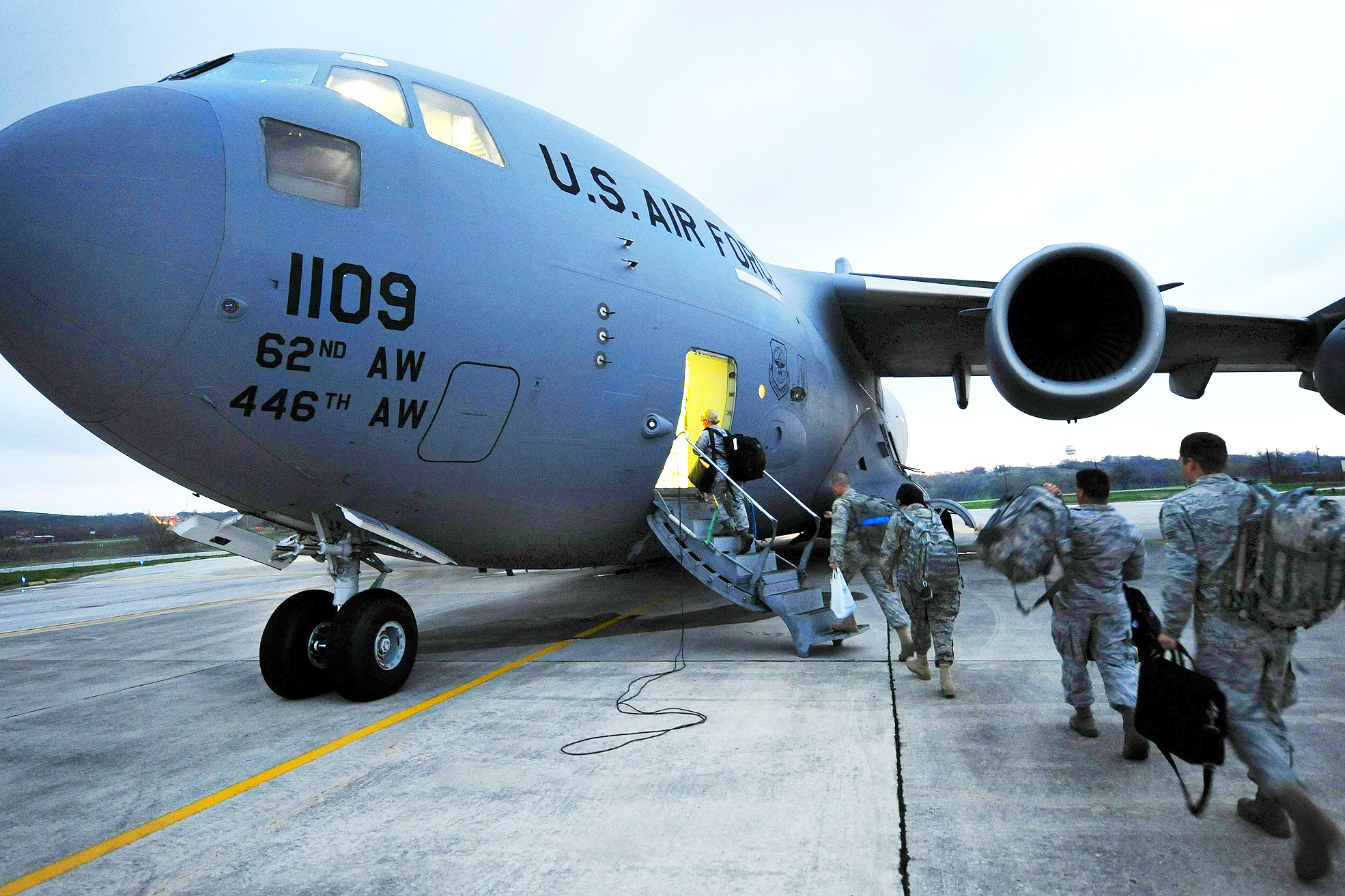 U.S Air Force airmen depart for a humanitarian mission to Angol, Chile, from Lackland Air Force Base in San Antonio, Texas, March 8, 2010. The airmen will set up an expeditionary hospital in Angol after the local hospital was deemed unstable after the 8.8-magnitude earthquake, Feb. 27. Air Force and Chilean medics will work together to provide medical support for more than 110,000 people in the region.